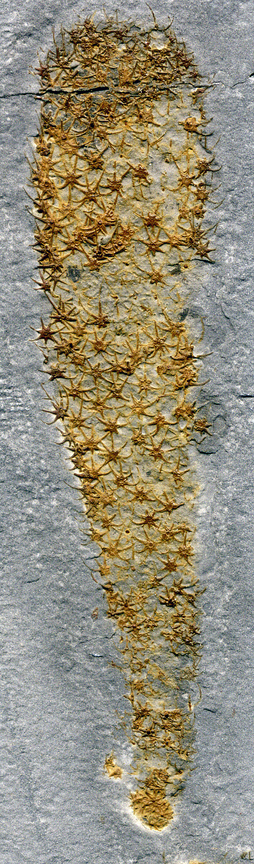 Chancelloria eros scleritome (7.1 cm tall) from the Middle Cambrian of western Utah, USA. Cambrian rocks frequently produce some of the oddest-looking organisms anywhere in the fossil record. One distinctive group of fossil organisms long known from Cambrian rocks is the chancelloriids. Chancelloriids have bag-shaped bodies covered with multirayed sclerites. They are often perceived as representing fossil sponges (Porifera), but ultrastructural studies on chancelloriid skeletal components show that they are a separate group. This is a commercially prepared, complete scleritome of Chancelloria eros Walcott, 1920 (Animalia, Coeloscleritophora, Chancelloriidae) in hard, gray, slightly calcareous mudshale. It comes from the “deep Wheeler Lagerstätte” (sensu Robison, 1991 in The Early Evolution of Metazoa and the Significance of Problematic Taxa), one of several famous soft-bodied fossil deposits in Utah. Most chancelloriid fossils are isolated sclerites, typically collected from acid residues of Cambrian limestones. Stratigraphy: Wheeler Formation, upper Ptychagnostus atavus Interval-zone (= lower Bolaspidella Assemblage-zone), upper Middle Cambrian. Locality: House Range, northern Millard County, western Utah, USA.